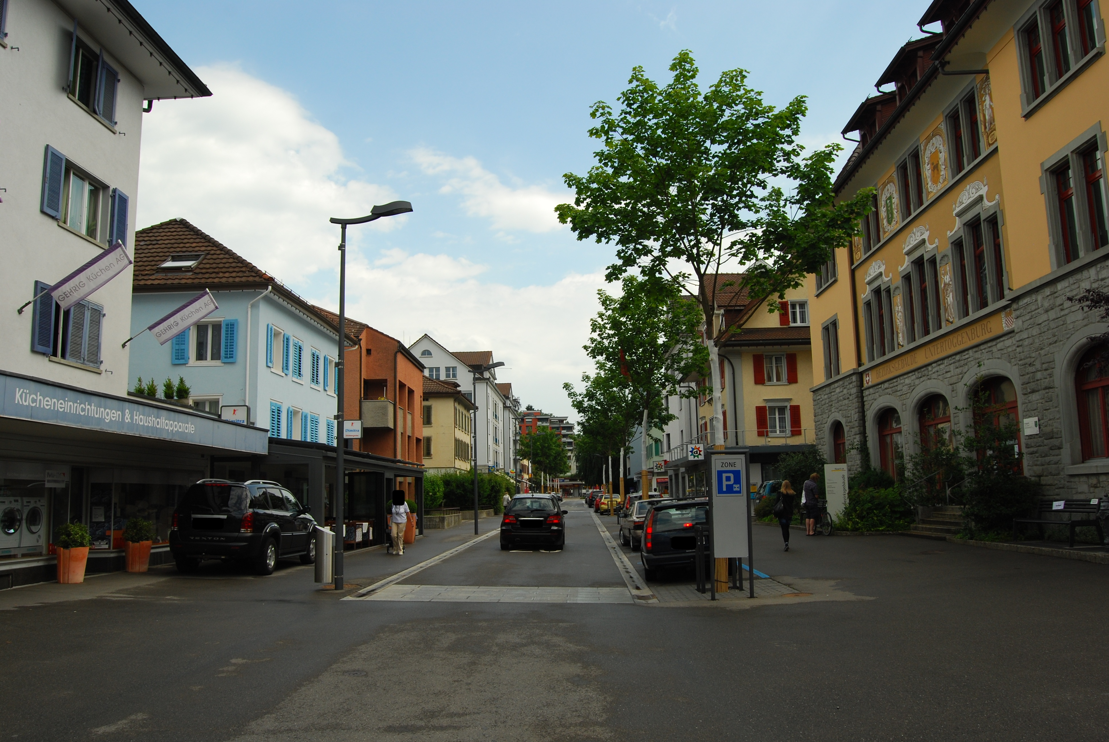 Flawil, canton of St. Gallen, Switzerland